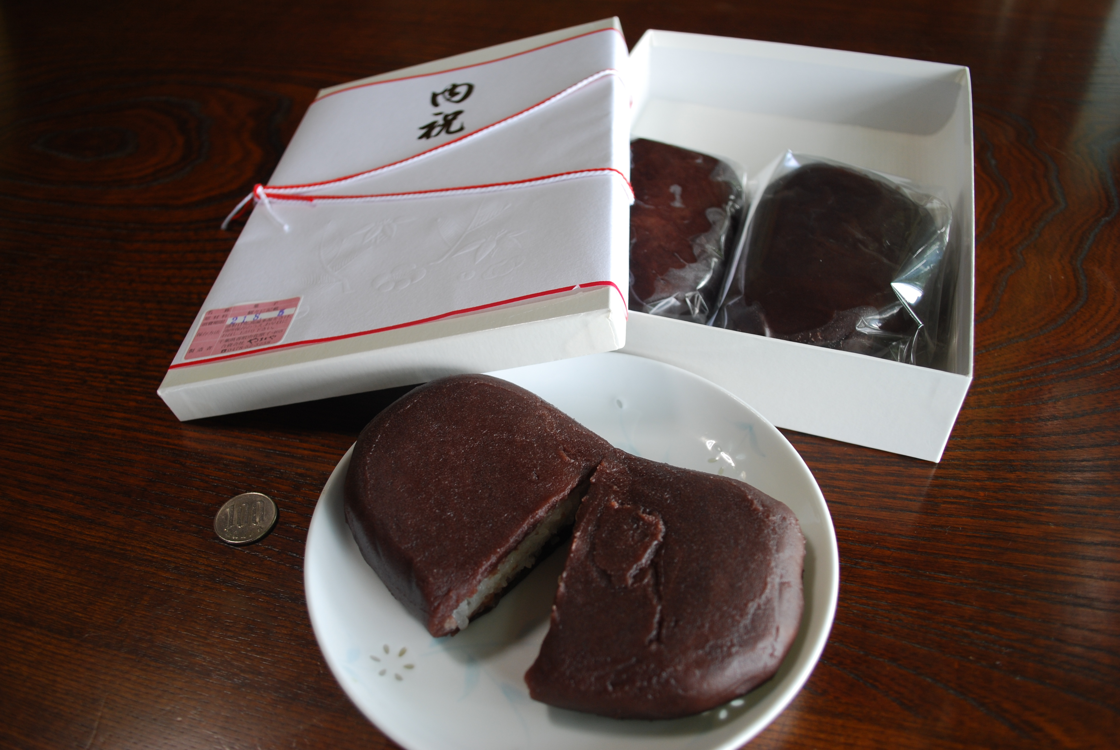 Mitsume-no-Botamochi,Katori-city,Japan. Big rice dumpling covered with red bean paste.Of "Mitsume-no-Botamochi" A Mitsume-no-Botamochi to give so that milk of mother appears on the third day after a child was born. I give relatives it. Manners and customs of Chiba or Ibaraki.